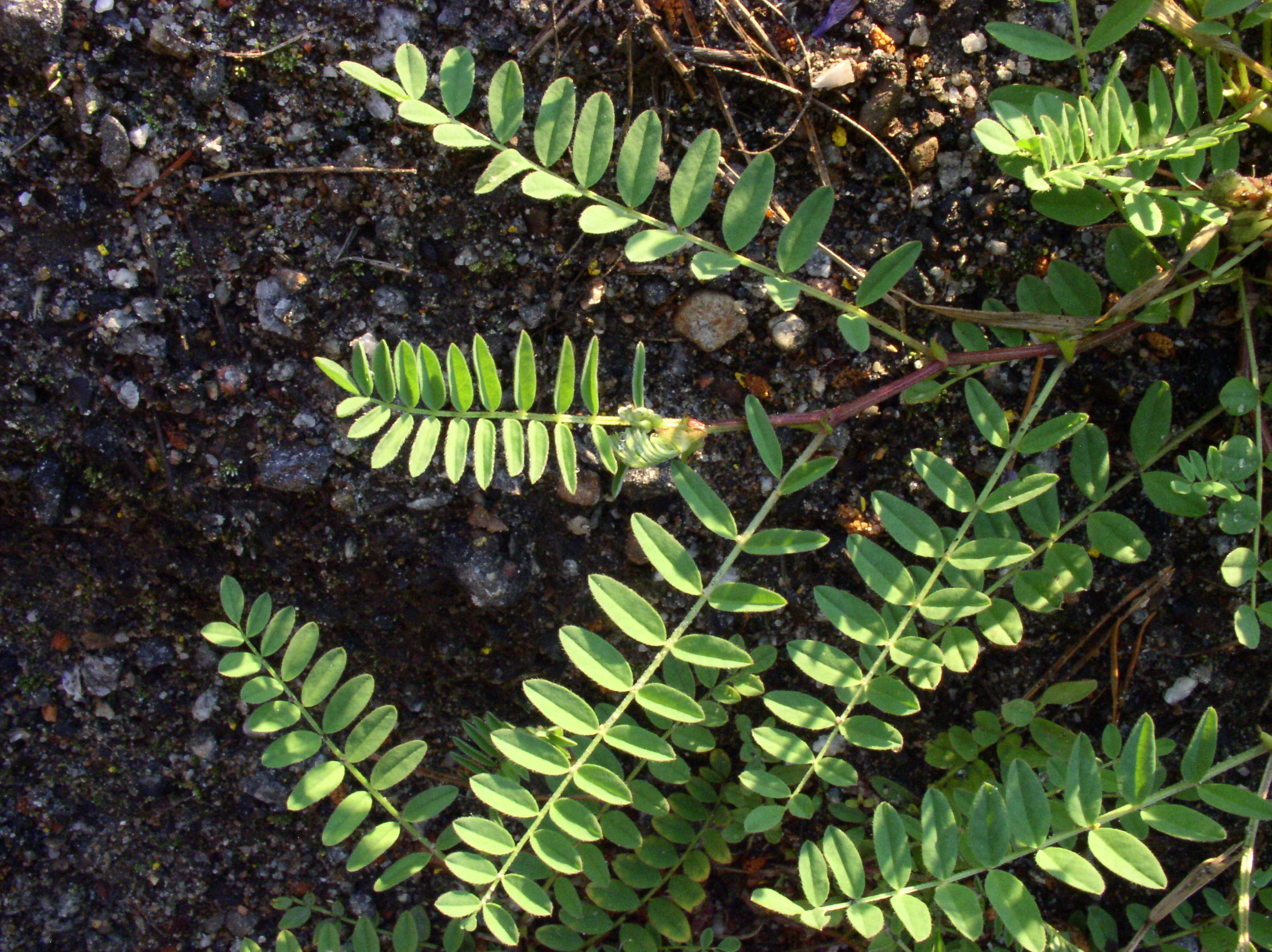 Astragalus alpinus leaves in Savonlinna, Finland.